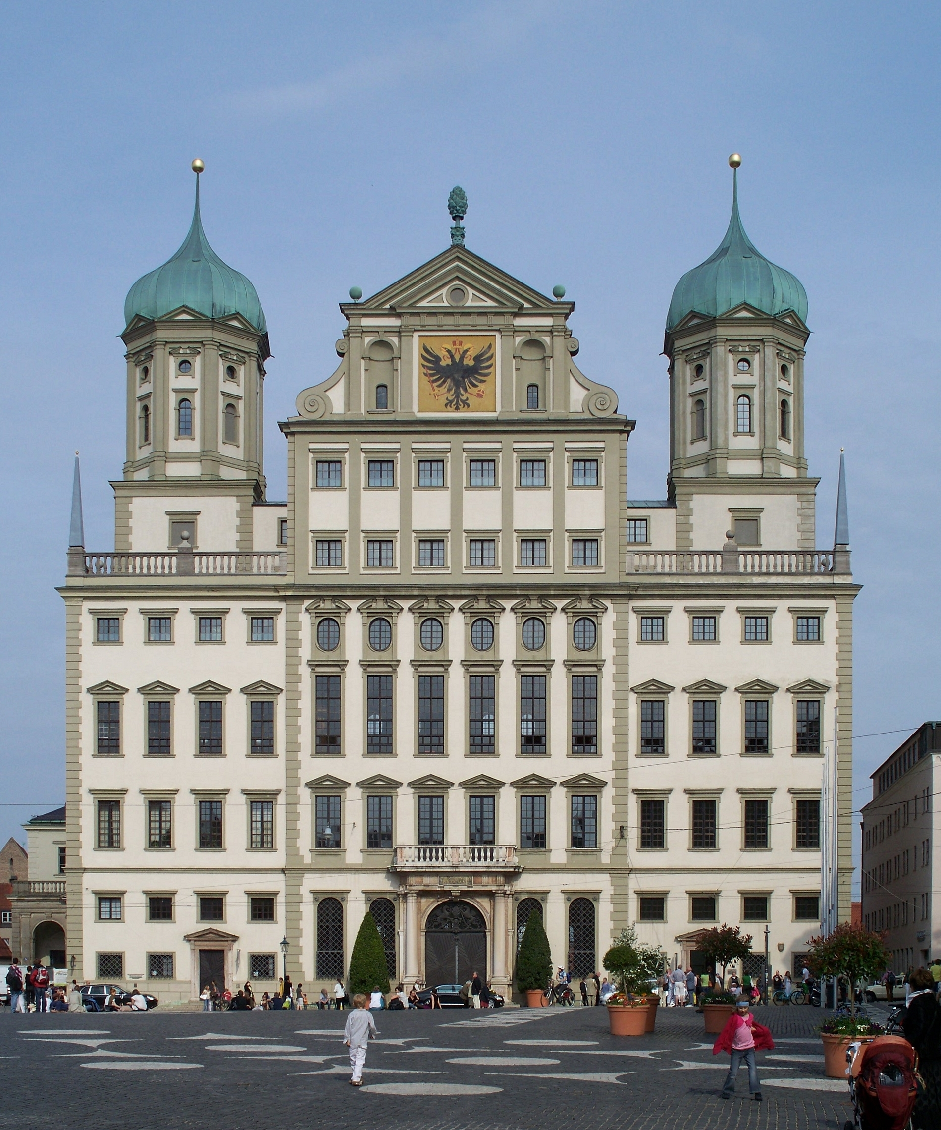 The Town Hall of Augsburg in April 2010.